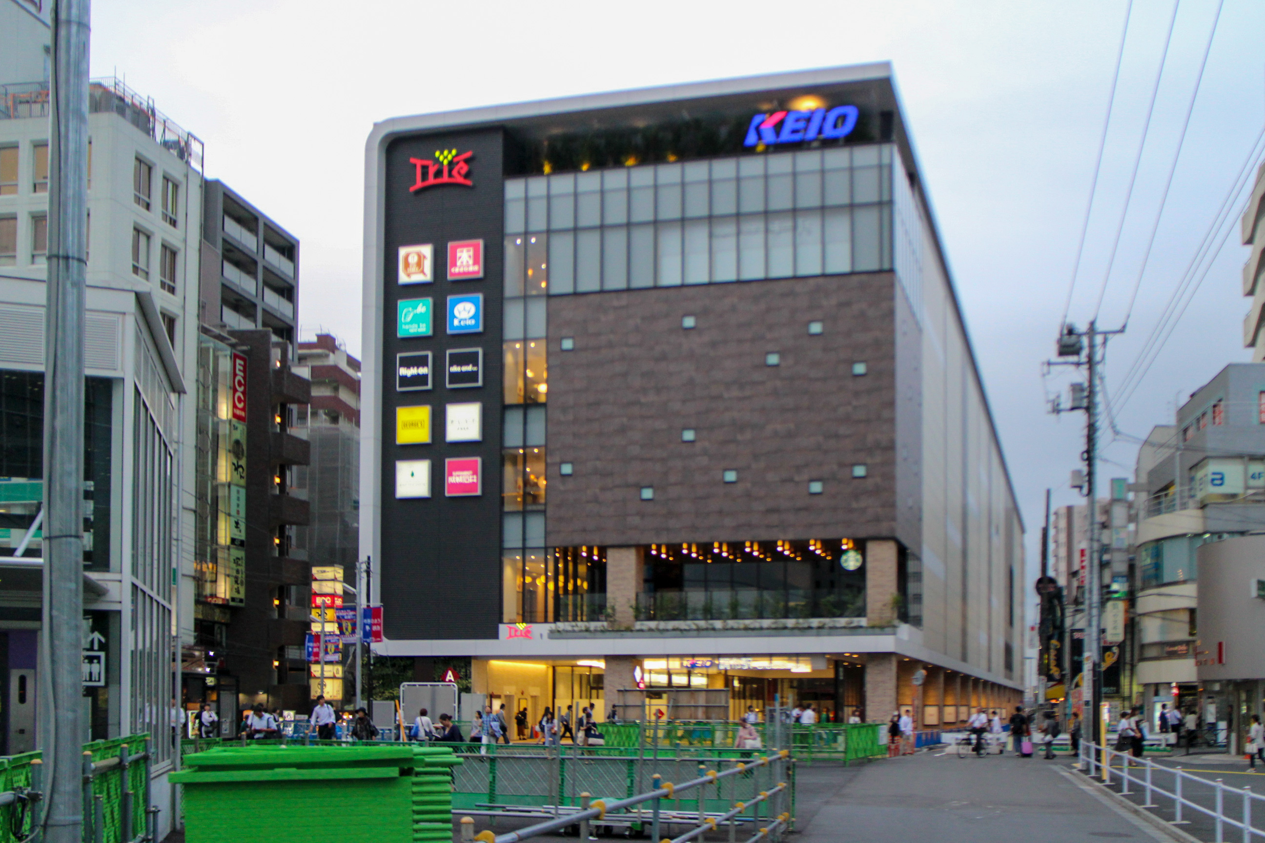 Chofu Station in Tokyo, Japan